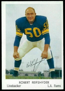 A 1959 promotional image of Los Angeles Rams player Bob Reifsnyder.